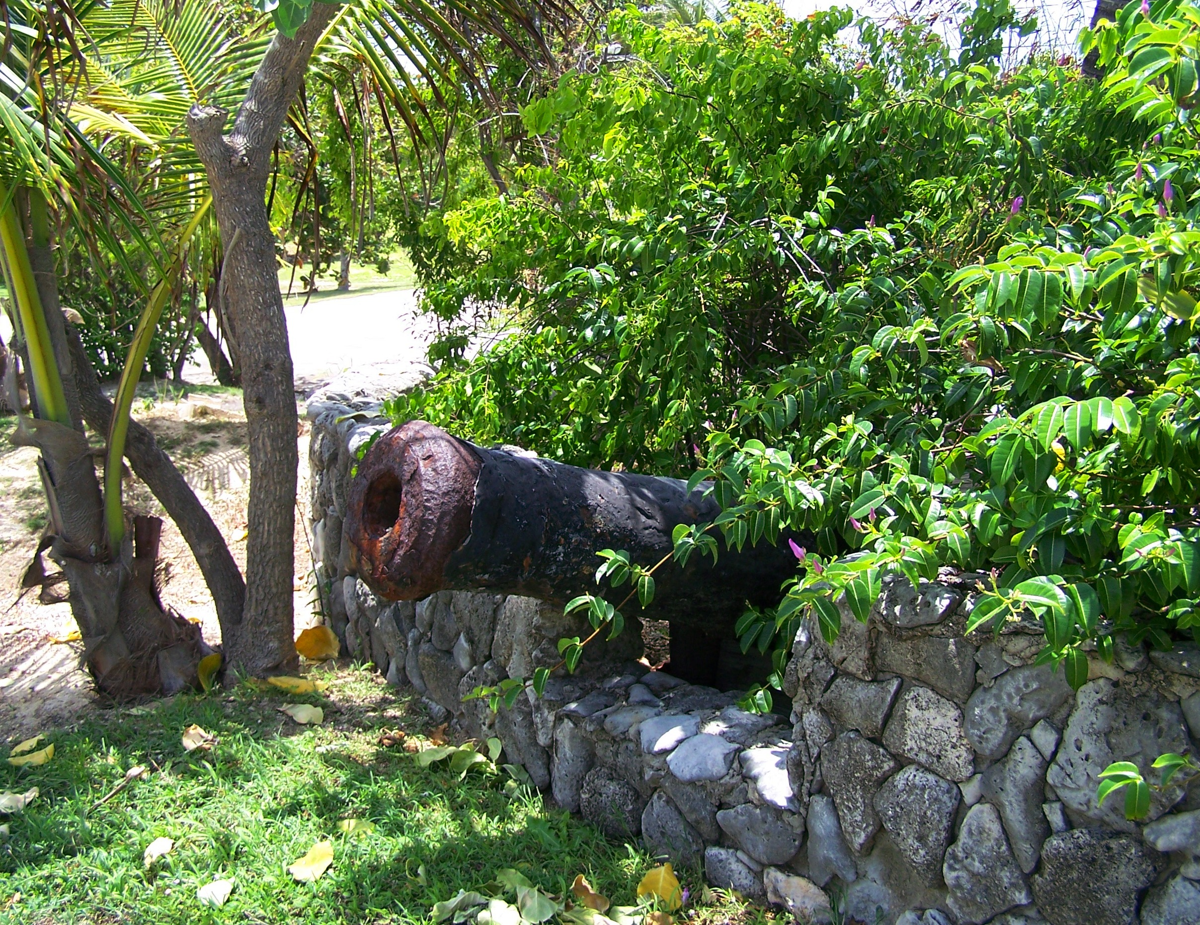 One of two small cannons located at the Guard House, Bodden Town, Grand Cayman